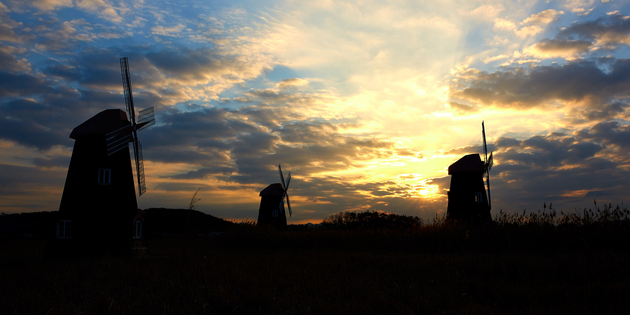 (Touristic) Windmills at Sorae Wetland/Marsh Ecology Park, Incheon, South Korea 500px provided description: Sorae Park, Incheon, South Korea [#sunrise ,#color ,#contrast ,#sun ,#clouds ,#windmill ,#korea ,#backlight]